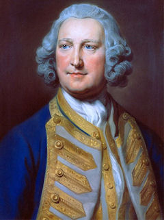 Portrait in pastels of Admiral Sir George Anson (1697-1762) – Shugborough Hall, NT 1270614.